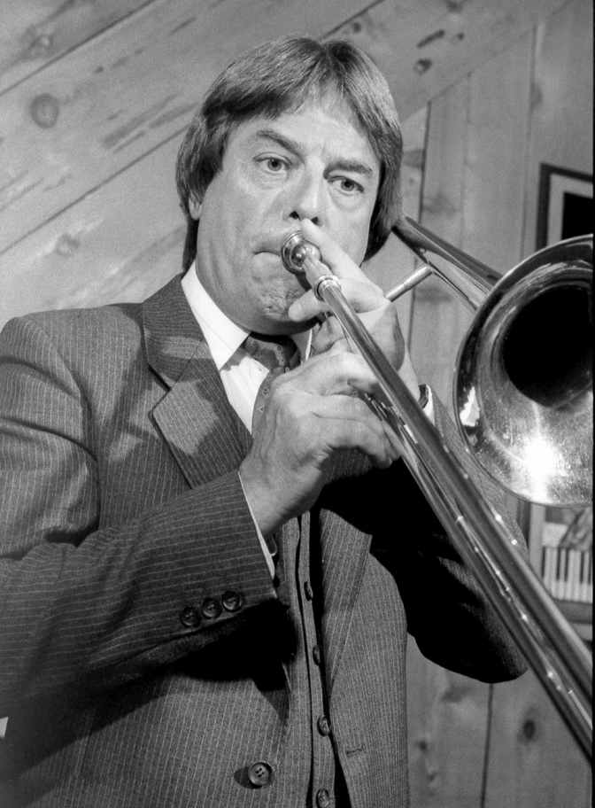 Bill Watrous at Bach Dancing & Dynamite Society, Half Moon Bay CA 7/23/89 /